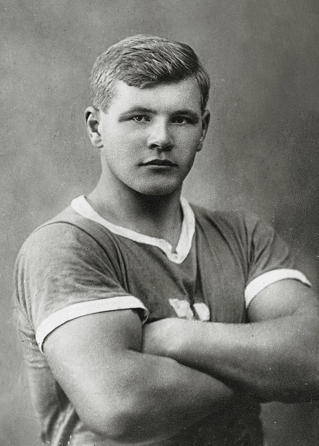 Ville Pörhölä at the 1920 Olympics